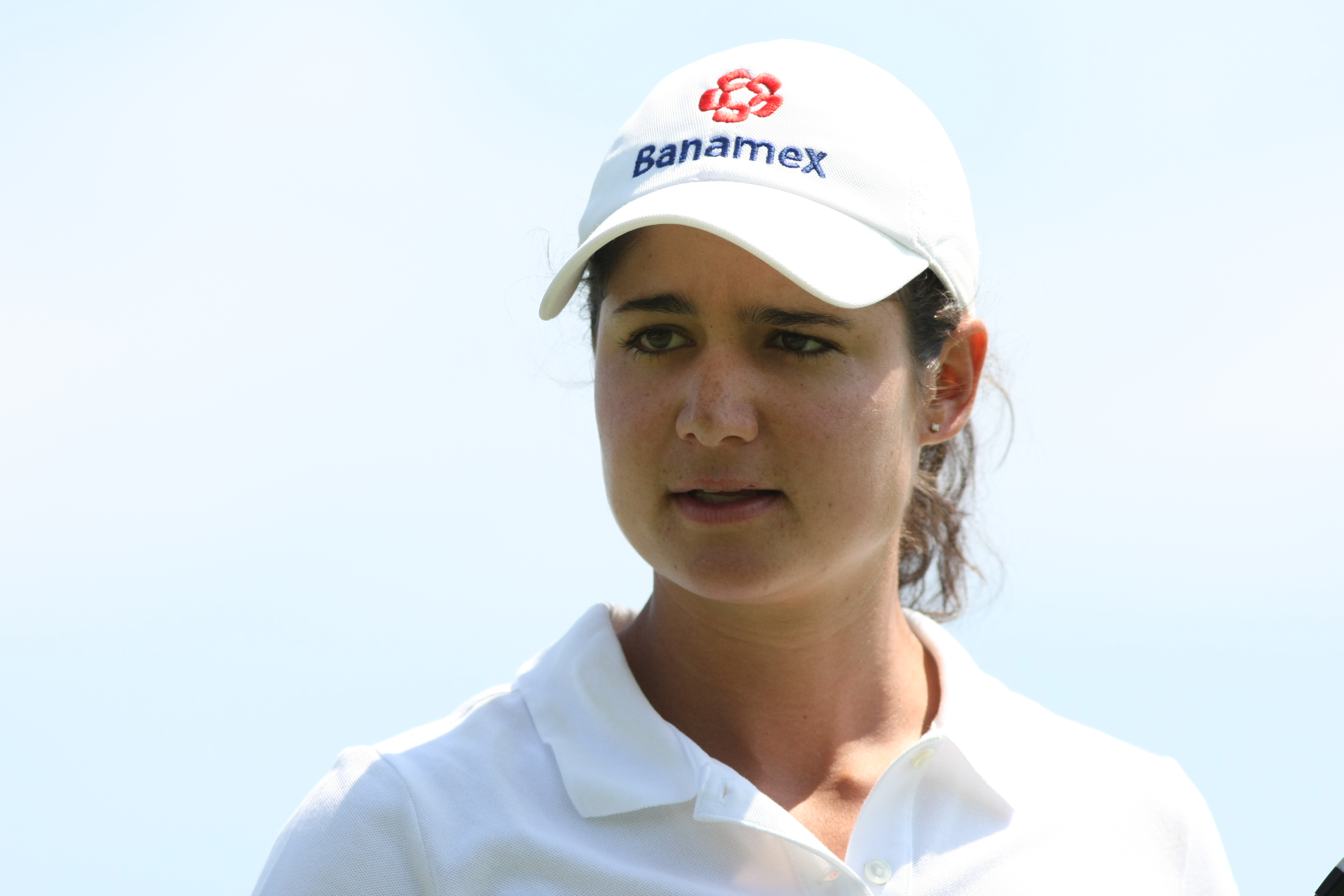 HAVRE DE GRACE, MD - JUNE 03: Lorena Ochoa (MEX) during pro-am before 2008 LPGA Championship held at Bulle Rock Golf Course, on June 3, 2008 in Havre de Grace, Maryland. (Photo by Keith Allison)